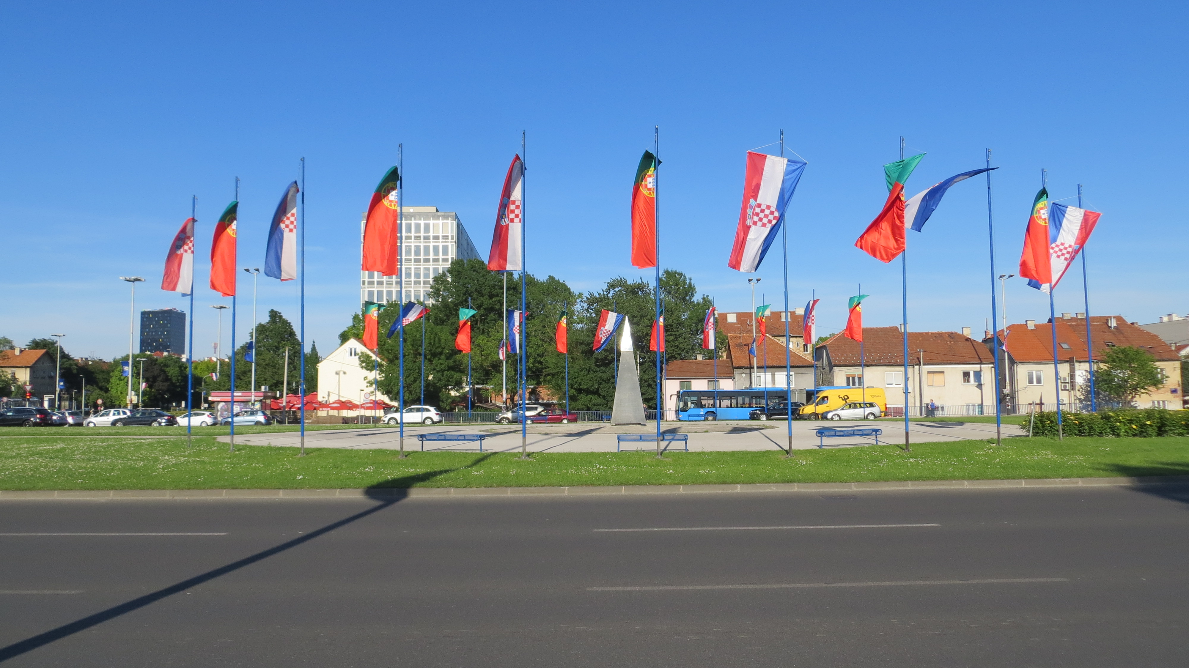 Flags of Croatia and Portugal in Zagreb on the occasion of Portuguese President Marcelo Rebelo de Sousa's visit to Croatia.